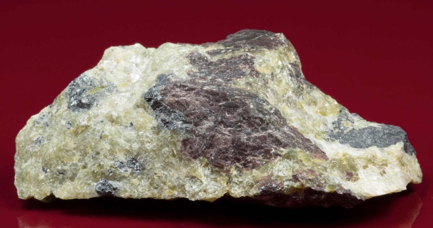 Althausite, Hematite, Lizardite Locality: Overntjern Quarry, Overntjern, Modum, Buskerud, Norway Dimensions: 8.0 cm x 4.0 cm x 3.0 cm Dark reddish brown, subhedral crystals of althausite to 3cm in a serpentine-talc matrix with dark gray subhedral hematite crystals and aggregates to 2cm. A very good example for the species. Ex. Paulo Matioli collection. Photos by Tom and Melissa Campbell.